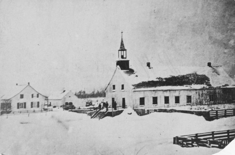 Photograph, St. Wenceslas d'Aston, QC, about 1890, Silver salts on paper mounted on card - Albumen process - 8.2 x 10.7 cm